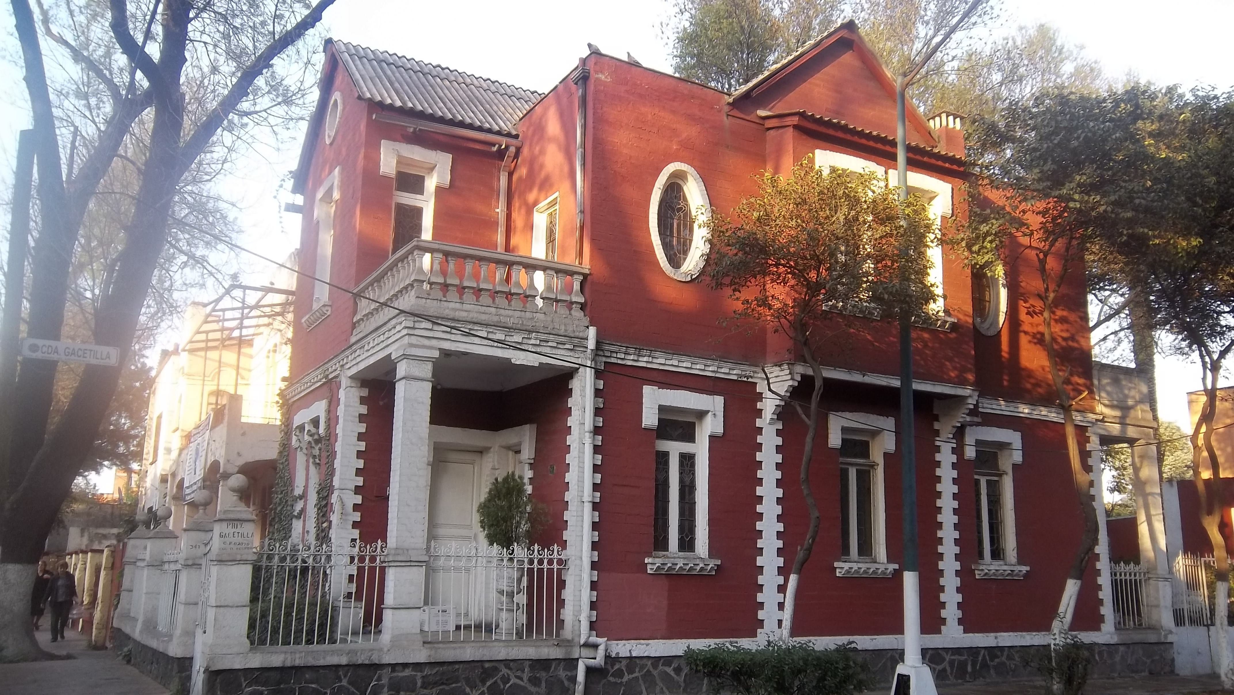 Art nouveau old house on Avenida Azcapotzalco, Mexico City.